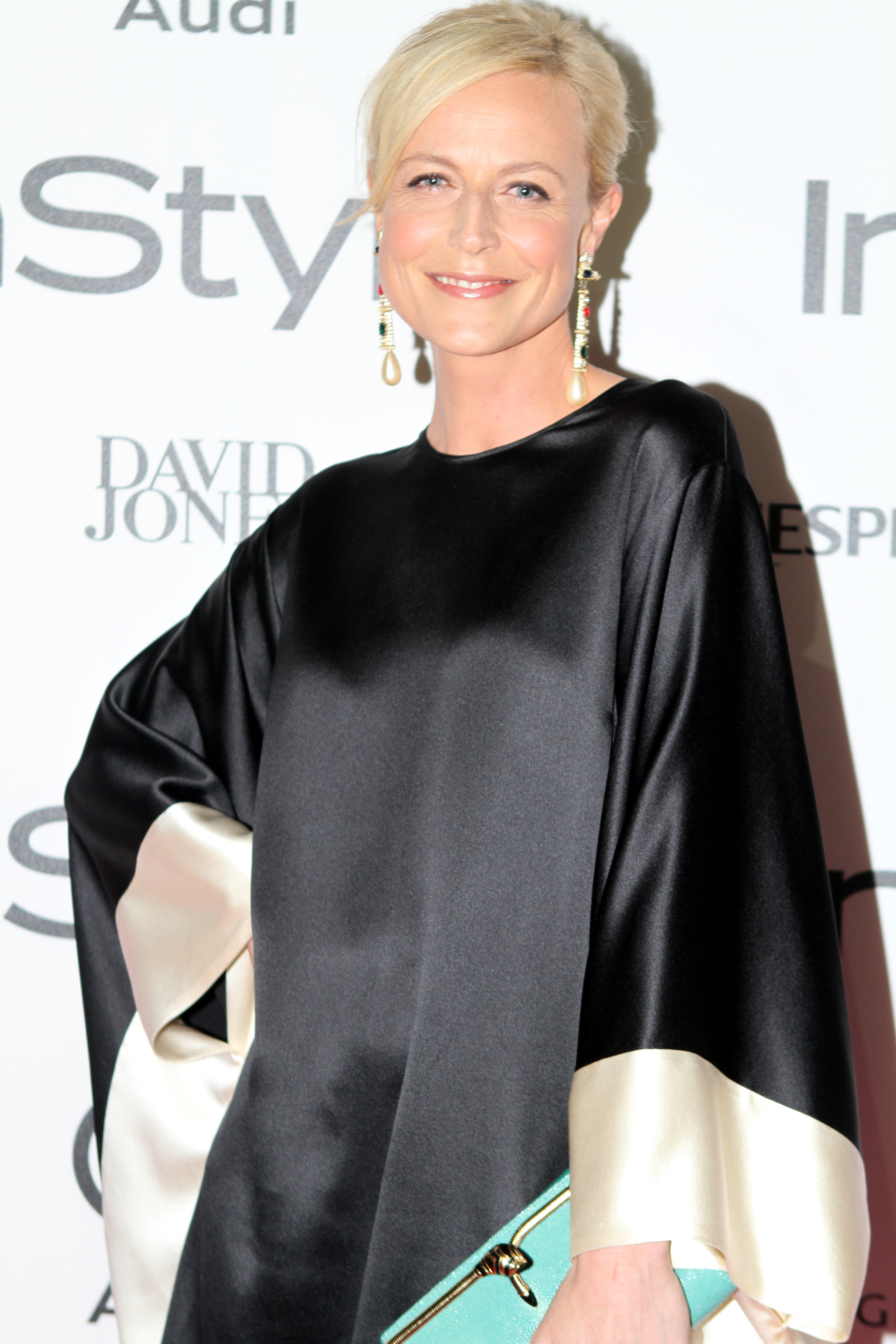 Instyle Awards 2015 InStyle and Audi Host Seventh Annual Woman Of Style Awards Red Carpet Gala Event